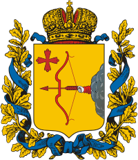 Vyatka gubernia (Russian empire), coat of arms (N2)